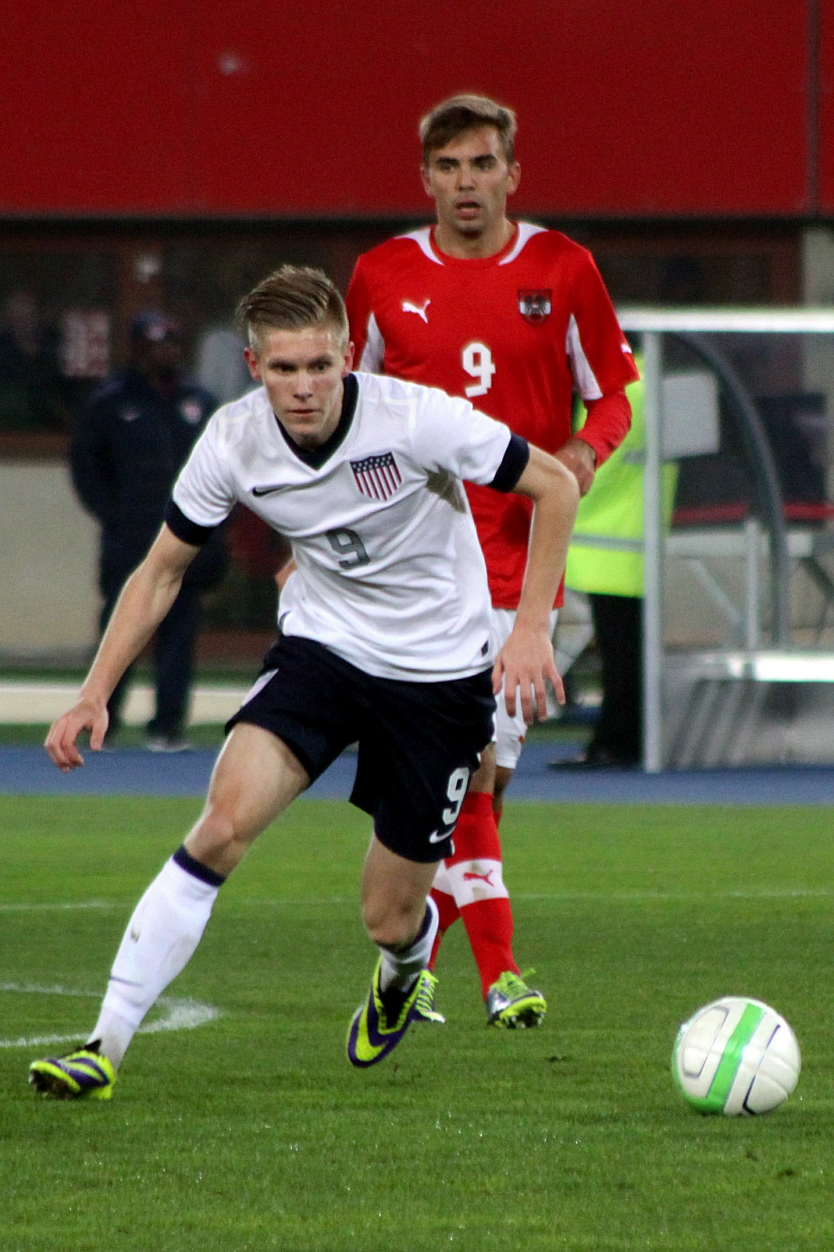 Friendly-match Austria vs. USA (1:0) in the Ernst-Happel-Stadion in Vienna at 2013-03-22. – The photo shows Aron Johannsson (USA) and behind Lukas Hinterseer (Austria).